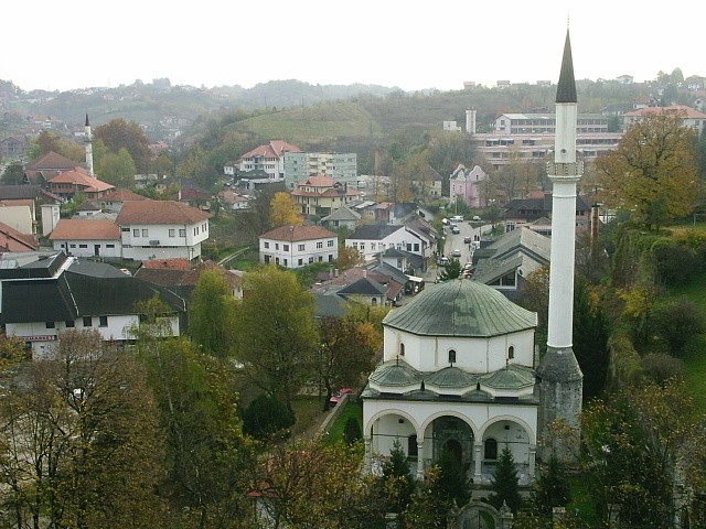 Town of Gradačac, Bosnia and Herzegovina